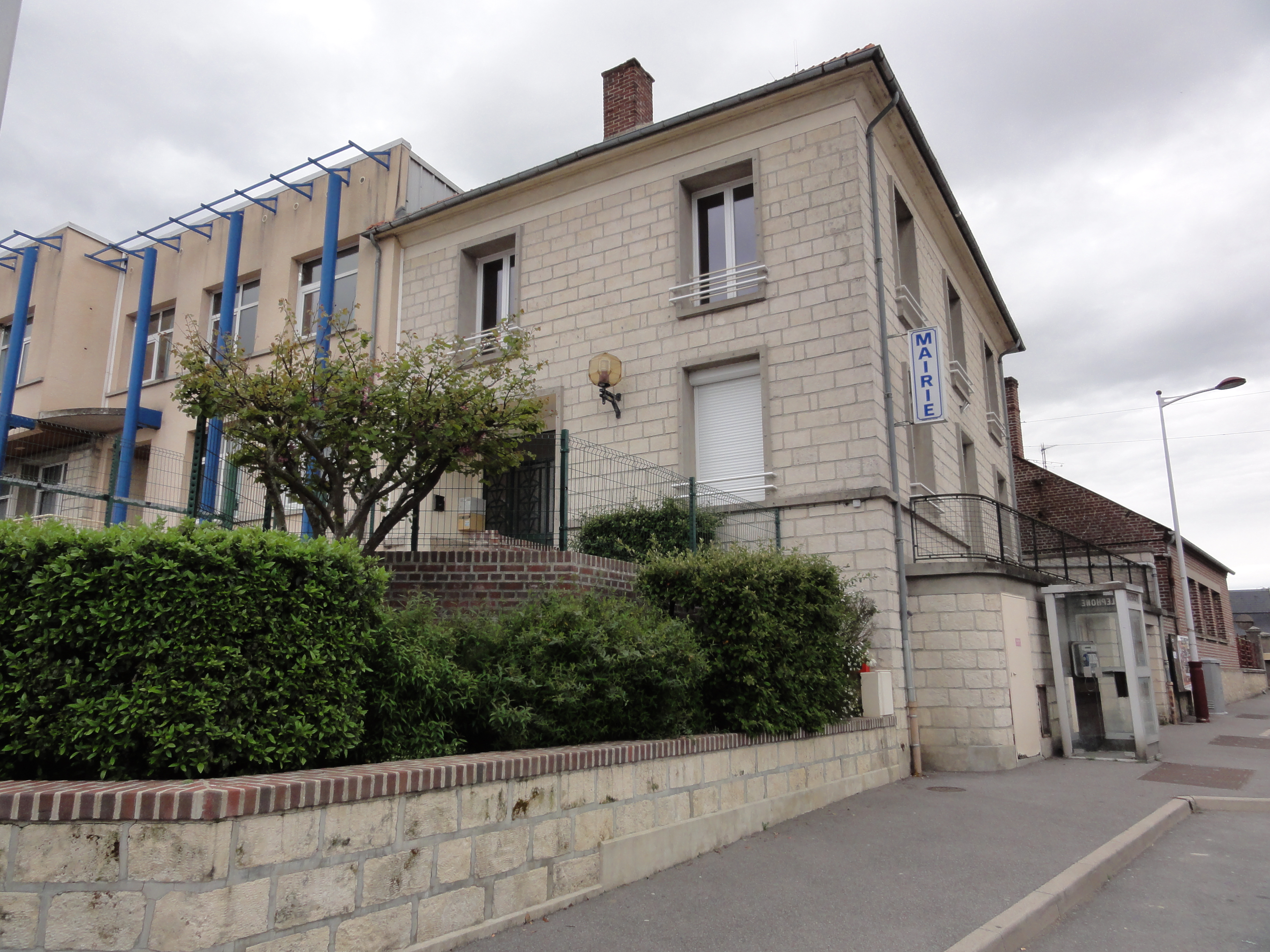 Couvron-et-Aumencourt (Aisne) mairie